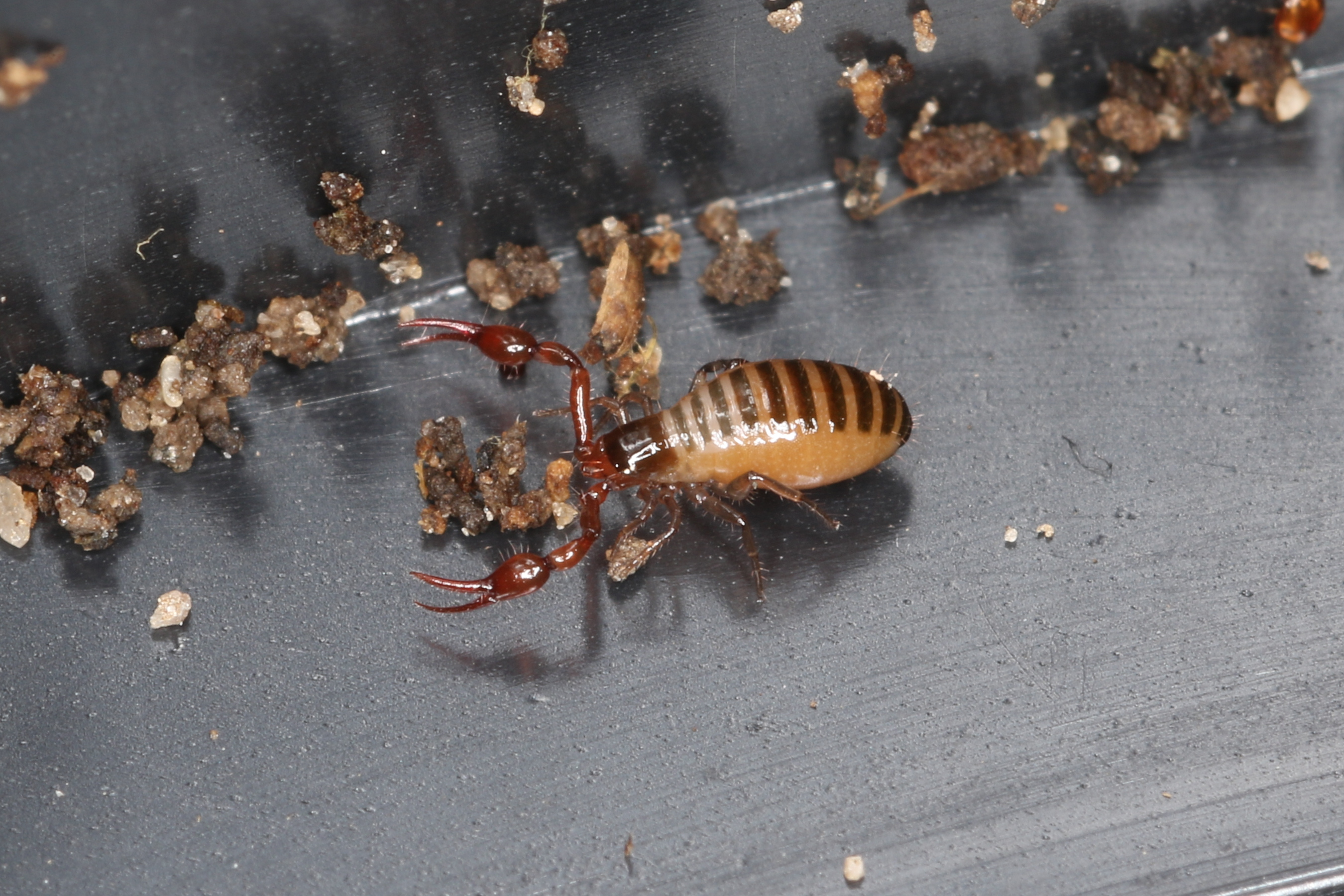 Neobisium carcinoides (Hermann 1804), sieved from soil/litter, Søborg, Denmark, 25 March 2016